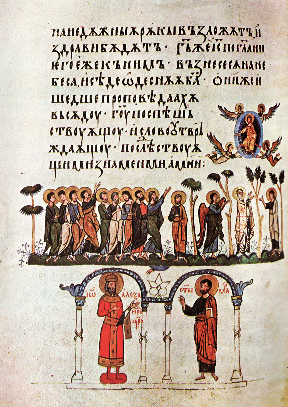 Miniature from Tetraevangelia of Ivan Alexander